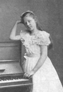 A young white girl with long hair, leaning on a small upright piano, wearing a white frock.